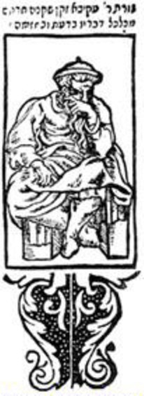 Rabbi Akiba, (or Akiba ben Joseph) from the Mantua Haggadah, 1568